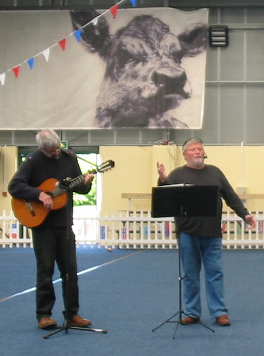 Fête des Rouaisouns, Jersey 2008